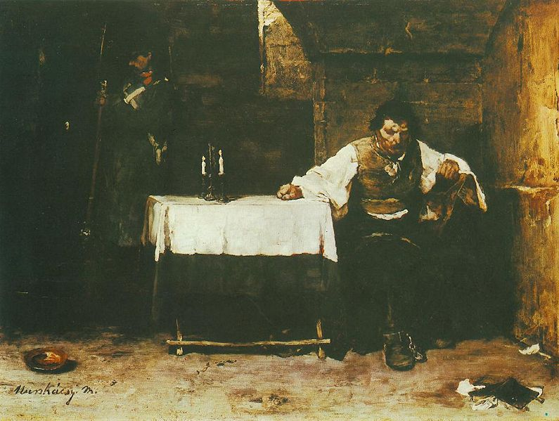 The Last Day of a Condemned Man